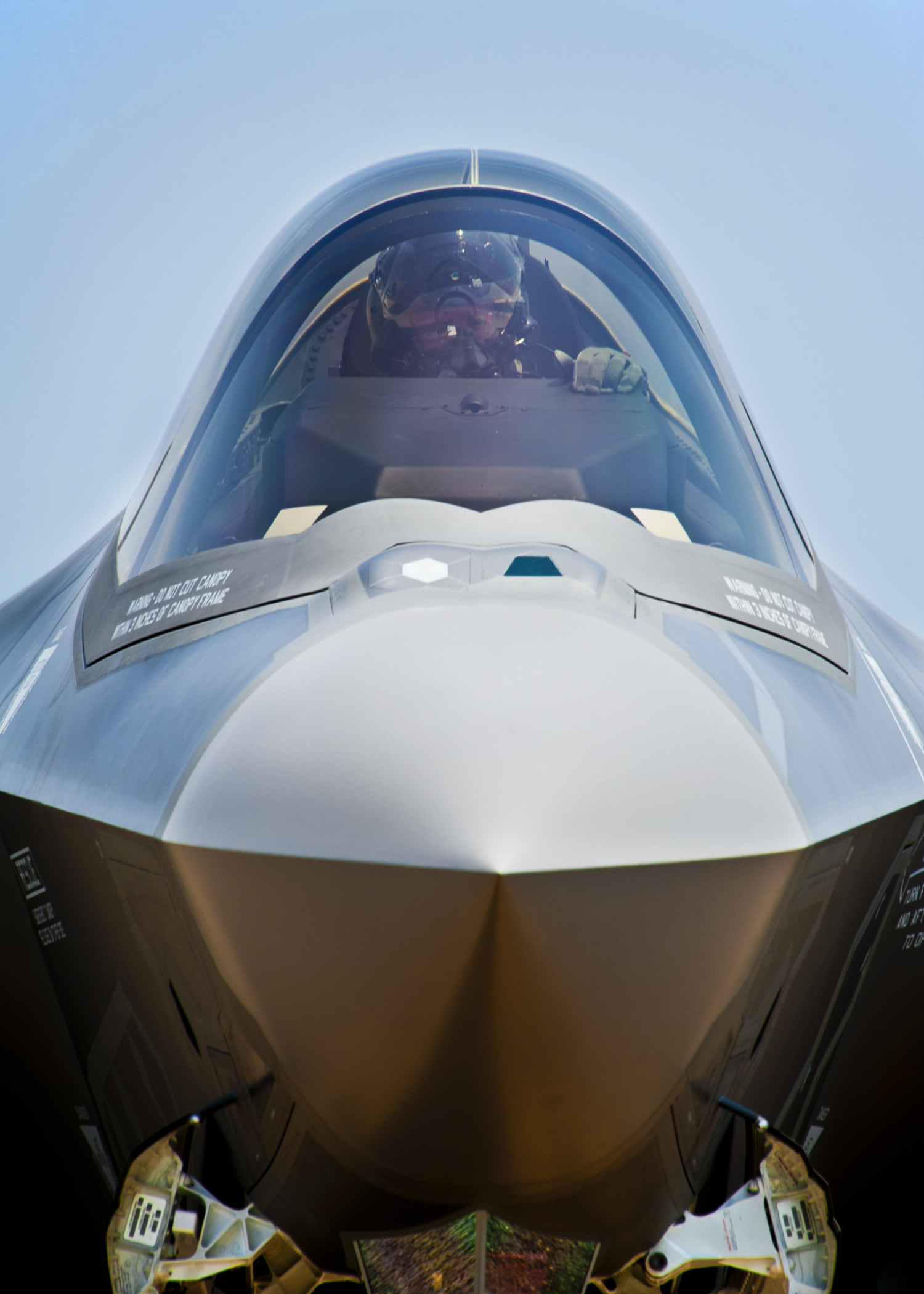 The Air Force’s first joint strike fighter pilot, Lt. Col. Eric Smith of the 58th Fighter Squadron, looks at the monitor in his squadron’s newest aircraft, the U.S. Air Force F-35 Lightning II, after flying the aircraft to its new home at Eglin Air Force Base, Fla., July 14, 2011.